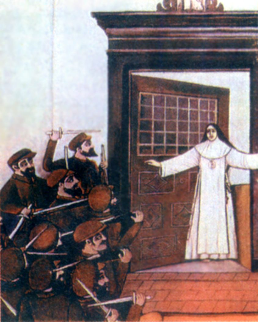 anonymous picture - martyrdom of the nun Joanna Angélica, in 1821.